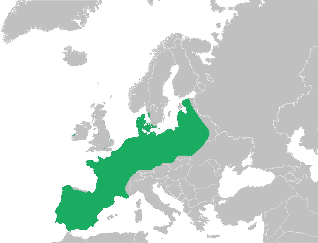 Range map of Epidalea calamita.